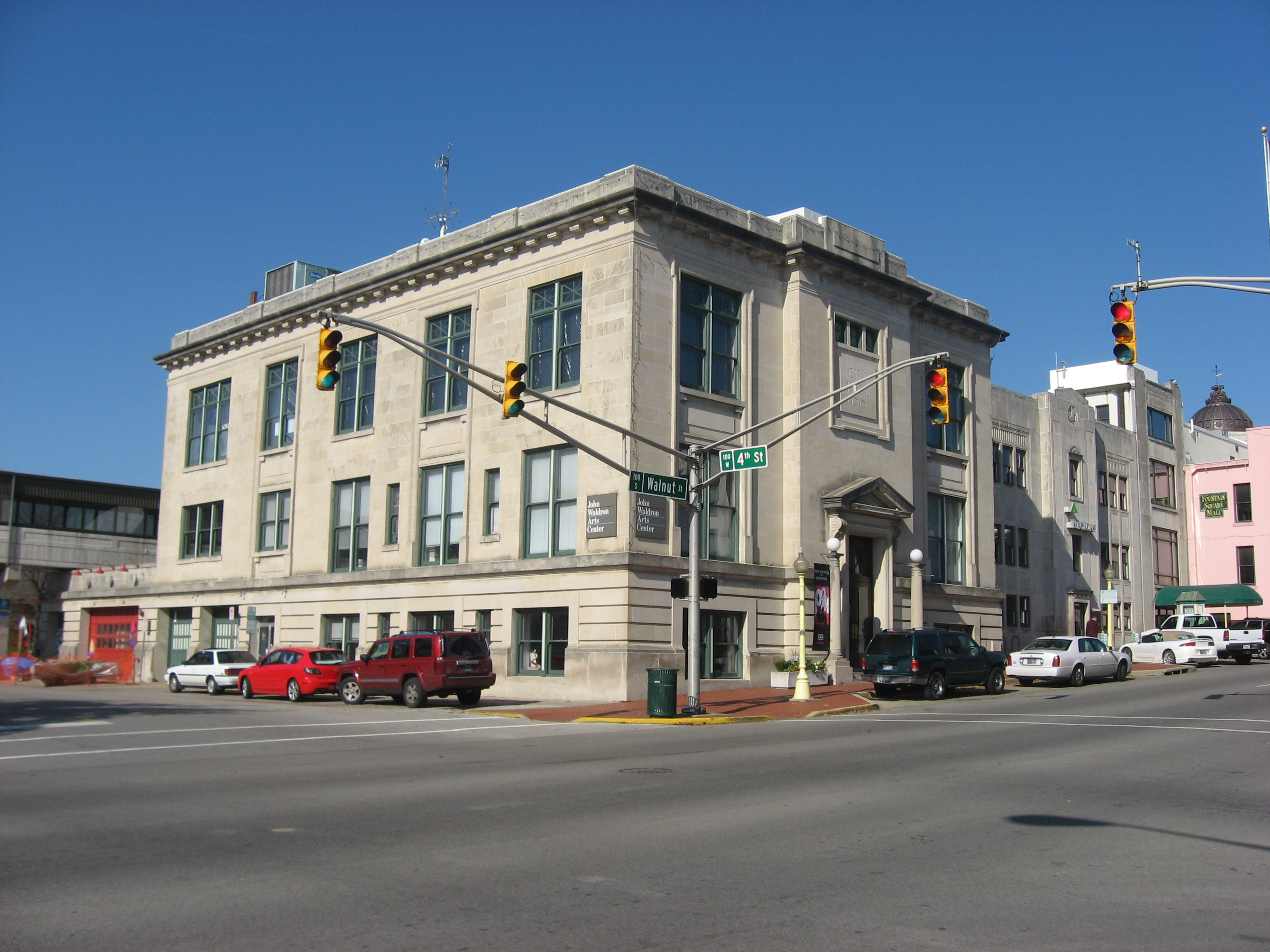 Front and southern side of Old City Hall in Bloomington, Indiana, United States. Located at 122 S. Walnut Street and built in 1915, it is listed on the National Register of Historic Places, and it is a part of a Register-listed historic district, the Courthouse Square Historic District.